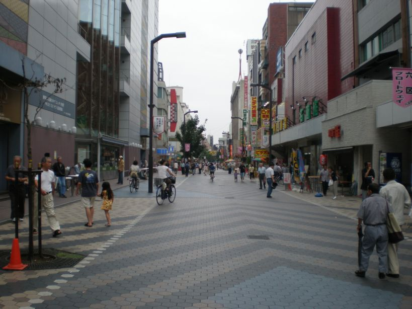 Rokku, Asakusa's entertainment district